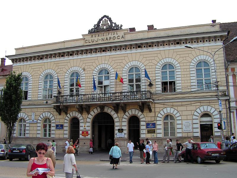 The old City Hall in Cluj-Napoca